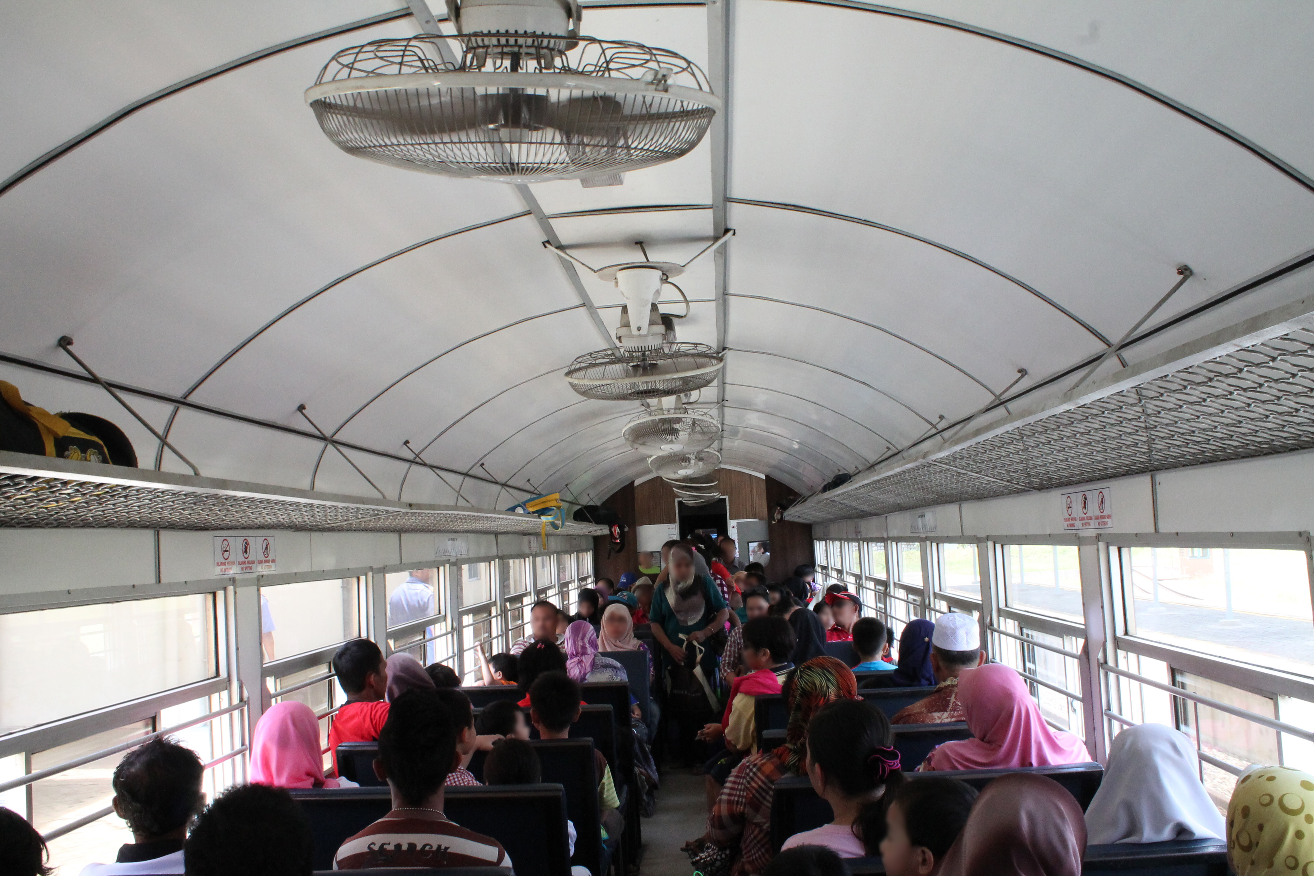 This photo taken from Sabah state railway, Malaysia